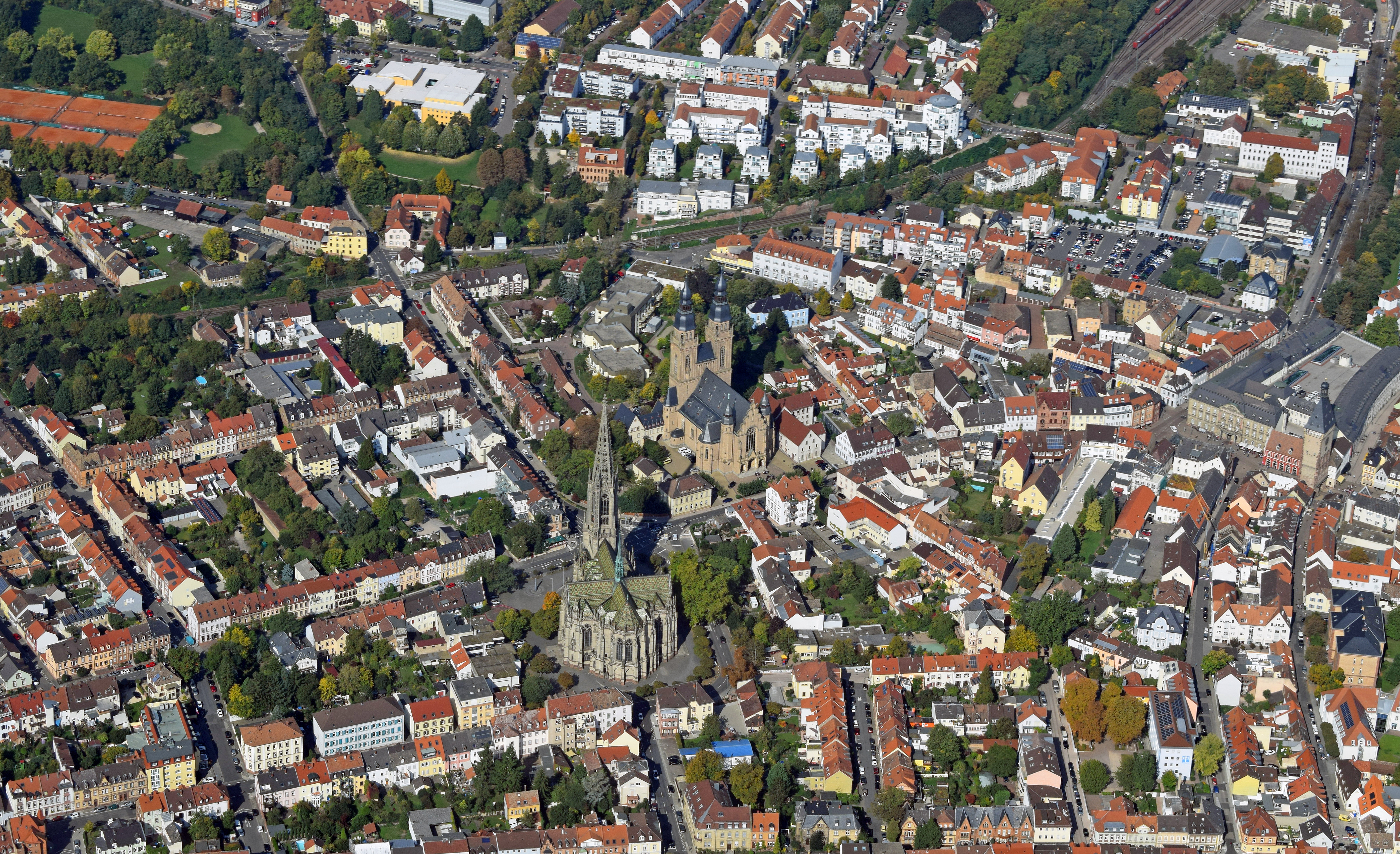 Gedächtniskirche (Memorial Church) of the Protestation (left) and St. Joseph's Church in Speyer. The aerial photograph clearly shows the immediate vicinity of the churches. The Church of St. Josephs was built in 1914 in response to the construction of the Memorial Church (1904).